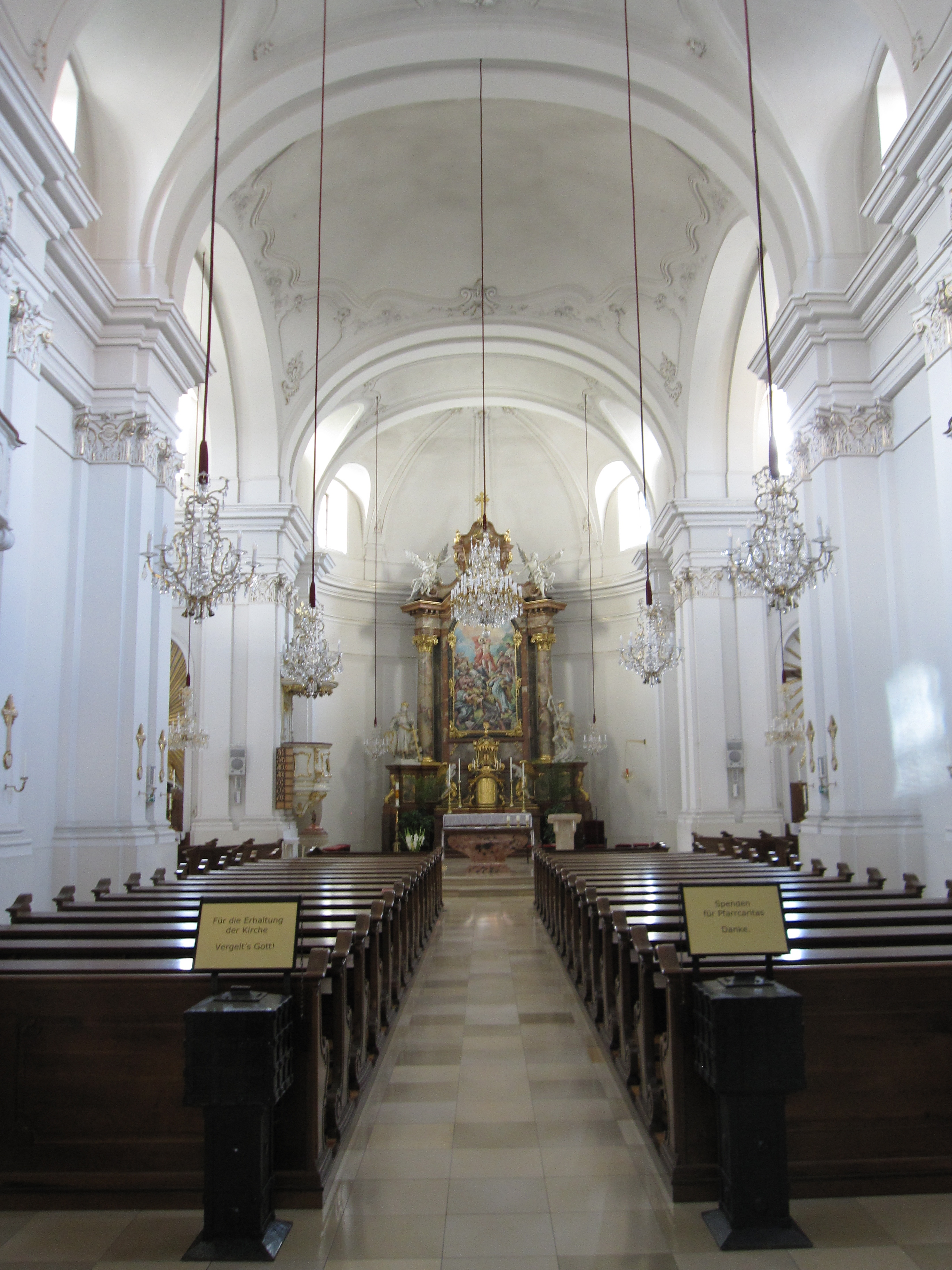 Calvary Church in Hernals, Vienna.